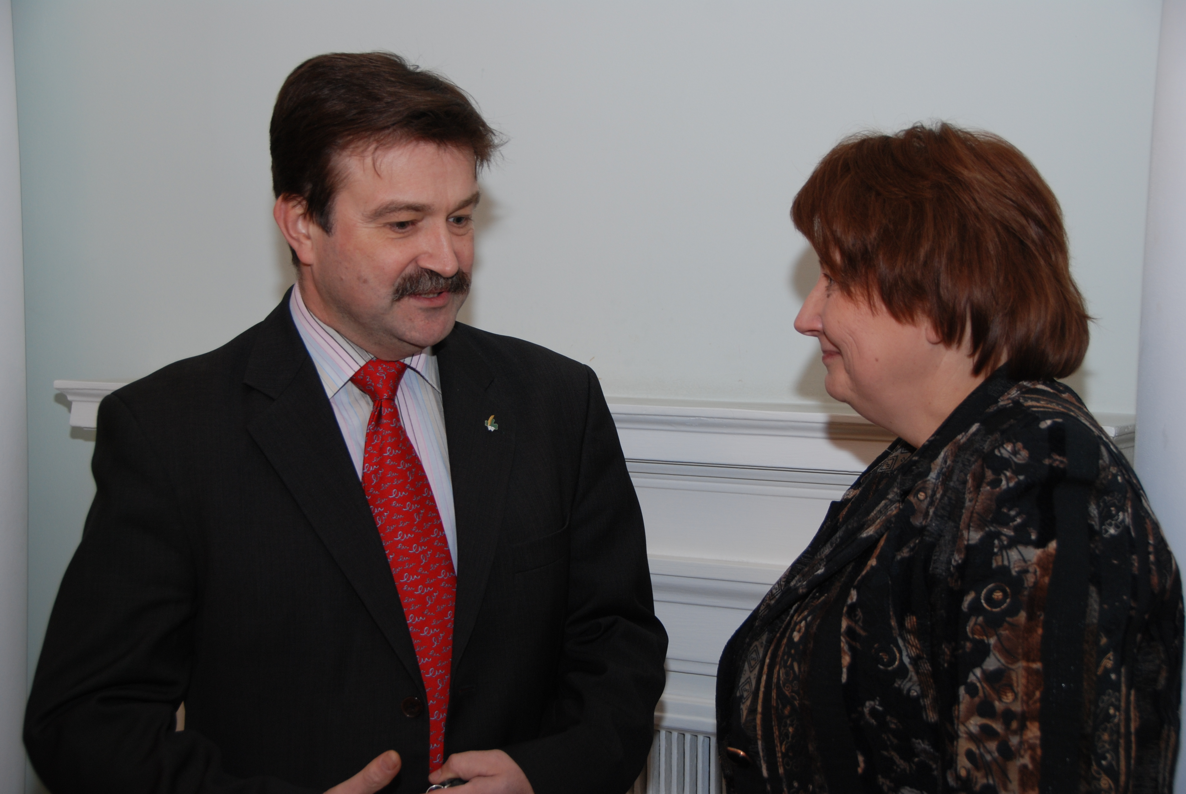 (From left to right): Leader of the Union of Greens and Farmers Mārtiņš Roze and the Parliamentary Secretary of Ministry of Regional Development and Local Government Laimdota Straujuma.